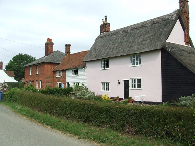 Withermarsh Green A few of the small number of houses in Withermarsh Green Suffolk.